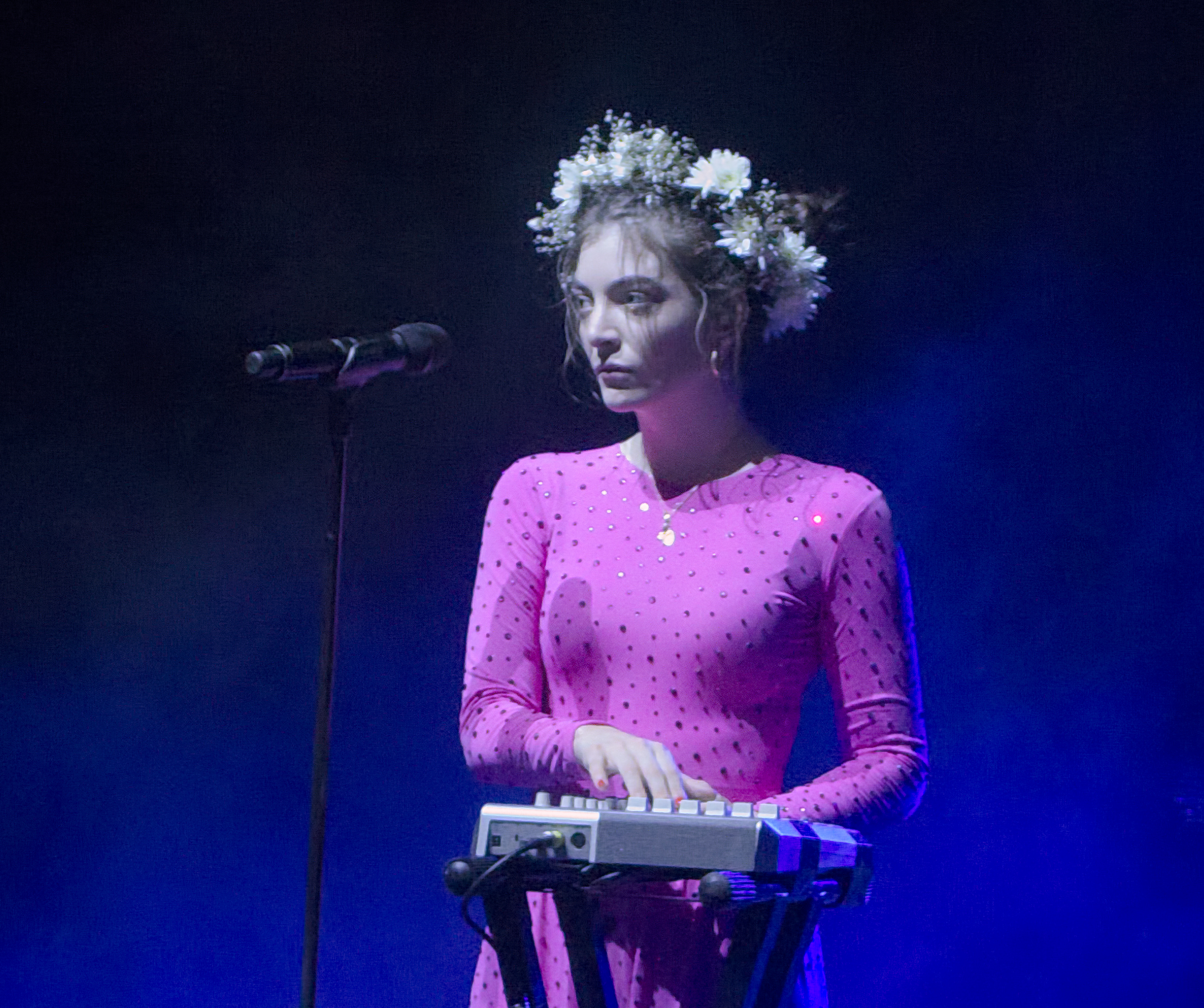 Lorde wearing a flower crown performing Loveless at the Riverstage in Brisbane Australia [23 November 2017], as part of the Melodrama World Tour.